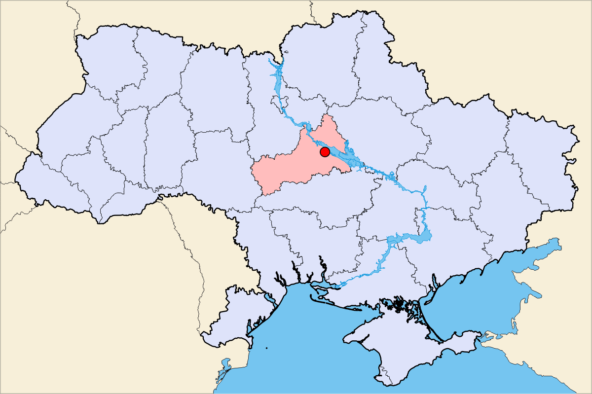 Description = Cherkasy geographical position Source = own work, Skluesener Date = 15.01.2006 Author = Skluesener Credits = Colours chosen according to a map of steschke